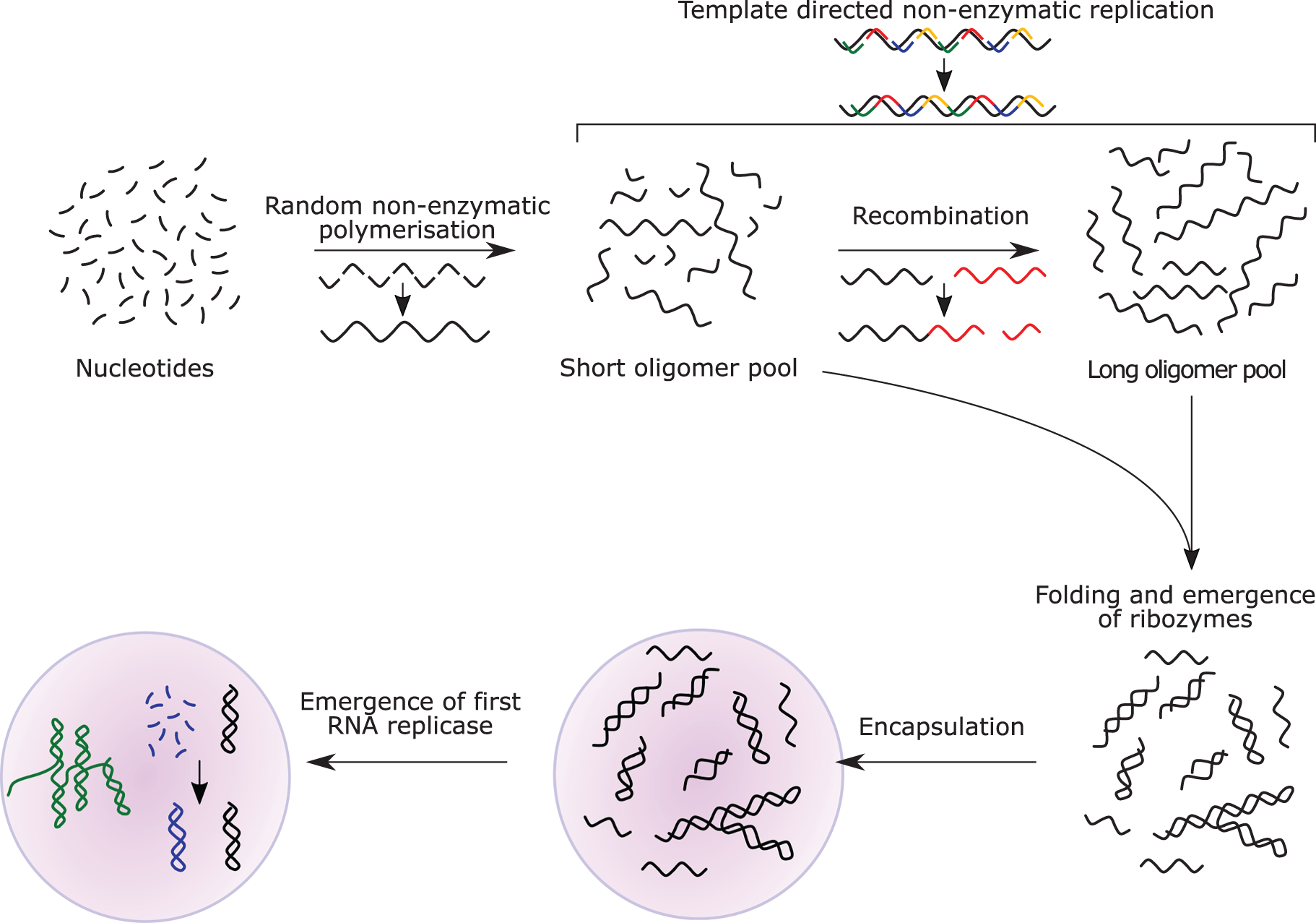 A schematic representation of the classical RNA world hypothesis. Initially, synthesis and random polymerisation of nucleotides result in pools of nucleic acid oligomers, in which template-directed non-enzymatic replication may occur. Recombination reactions result in the generation of longer oligomers. Both long and short oligomers can fold into structures of varying complexity, resulting in the emergence of functional ribozymes. As complexity increases, the first RNA replicase emerges, and encapsulation results in protocells with distinct genetic identities capable of evolution. In reality, it is likely that multiple processes occurred in parallel, rather than in a strictly stepwise manner, and encapsulation may have occurred at any stage.